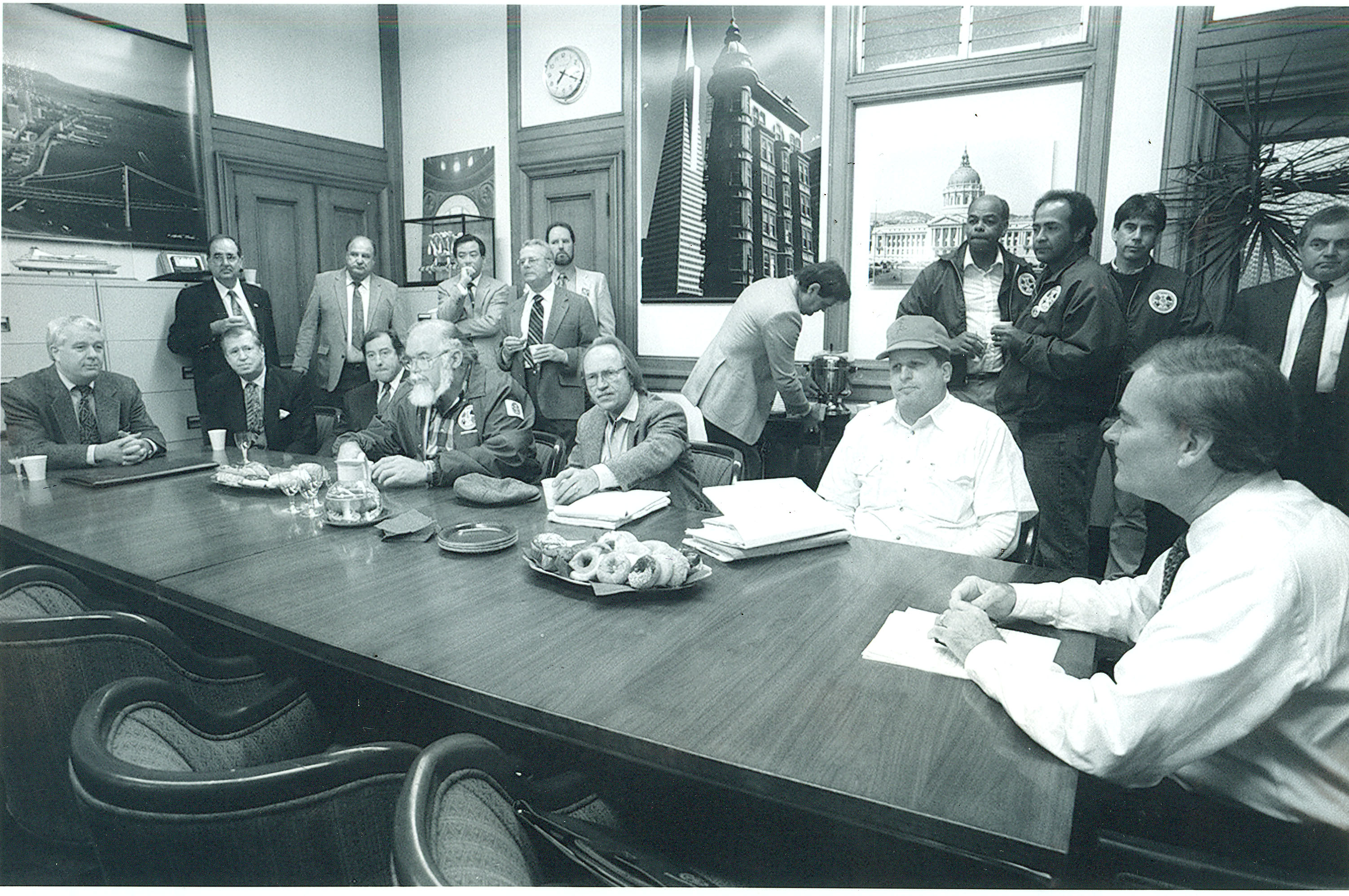 San Francisco Mayor Frank Jordan (right, seated) meets with CNU head Doug Cuthbertson and other union leaders at City Hall during the 1994 newspaper strike in San Francisco, California. Photograph by Nancy Wong